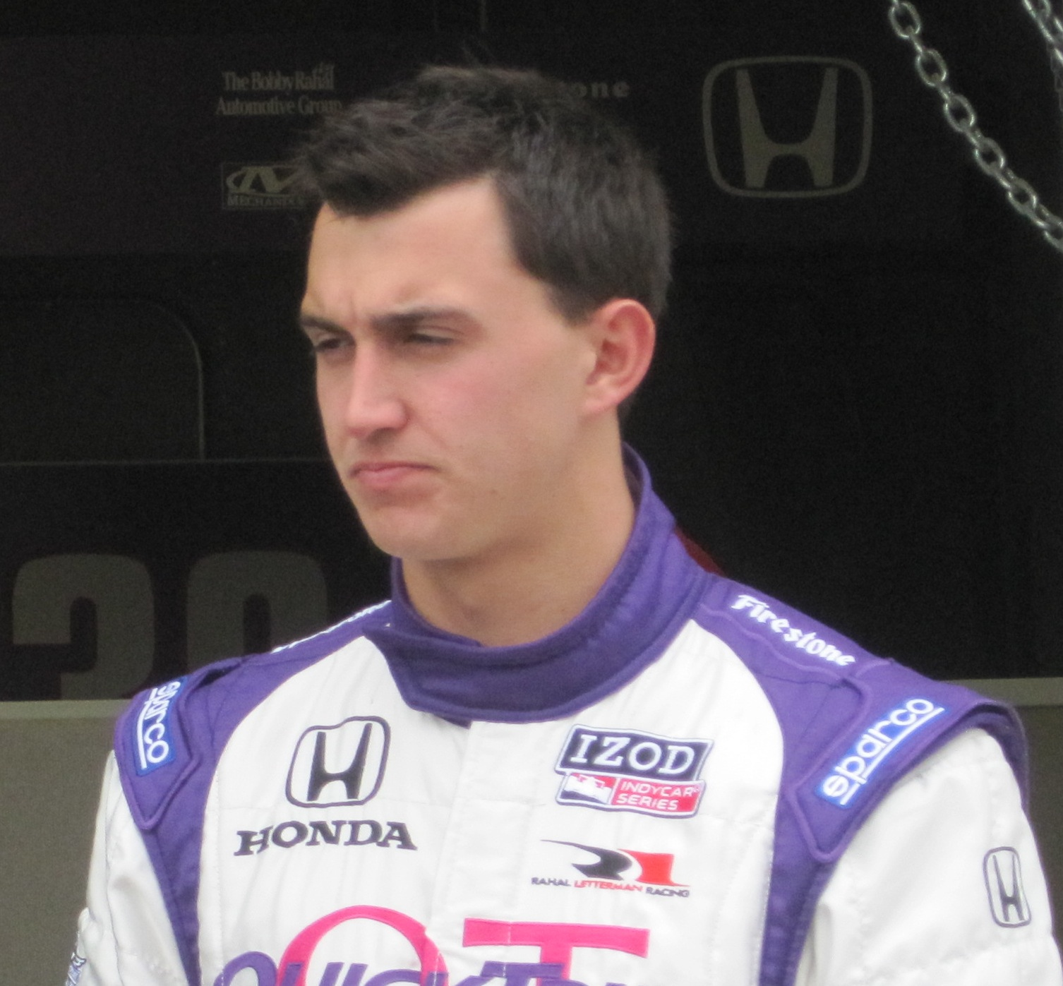 Rahal Letterman Racing's Graham Rahal at the Indianapolis Motor Speedway for day 7 of practice (Fast Friday) for the 2010 Indianapolis 500 on Friday, May 21, 2010.